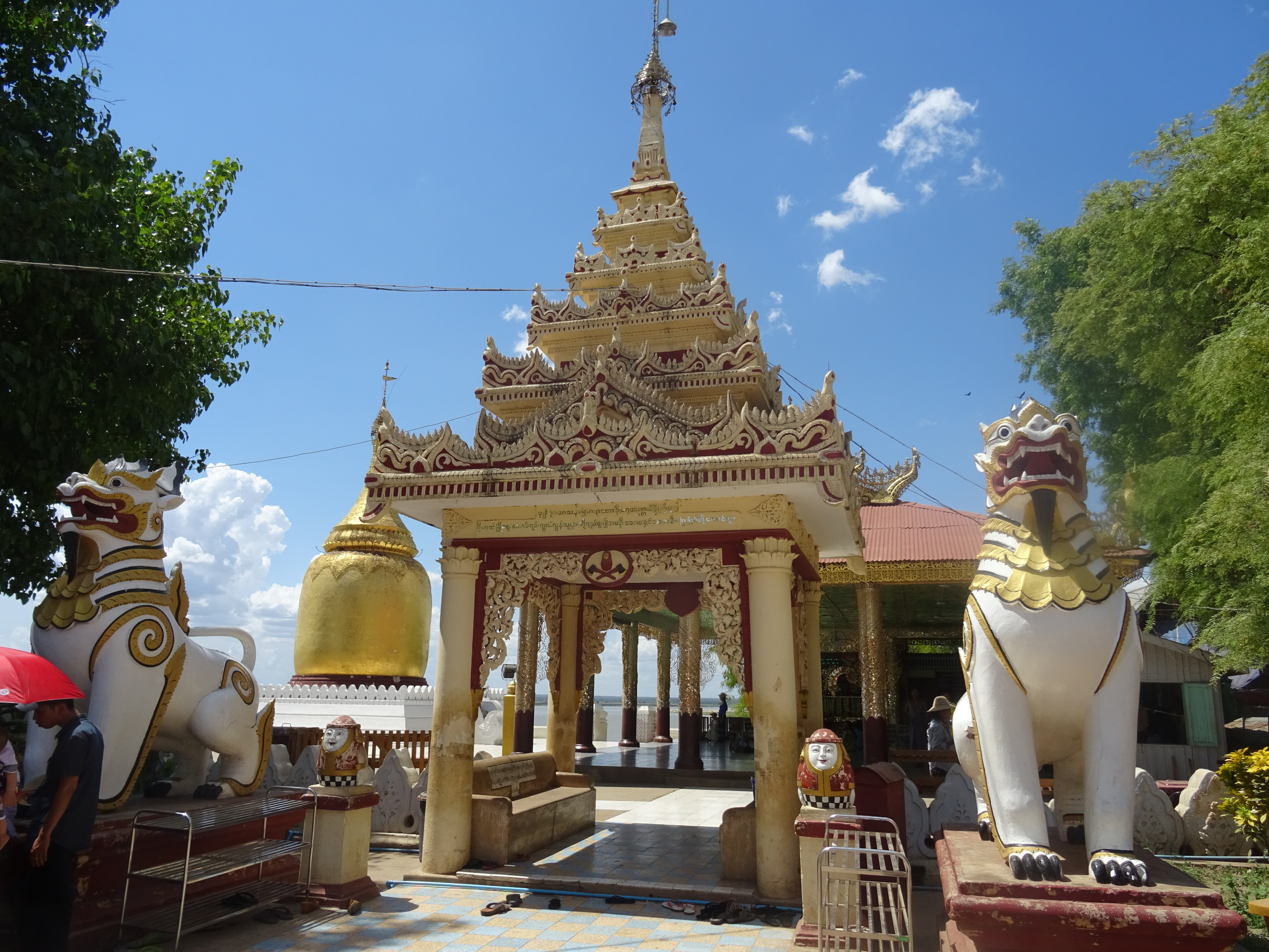 Bupaya in Bagan, Myanmar.